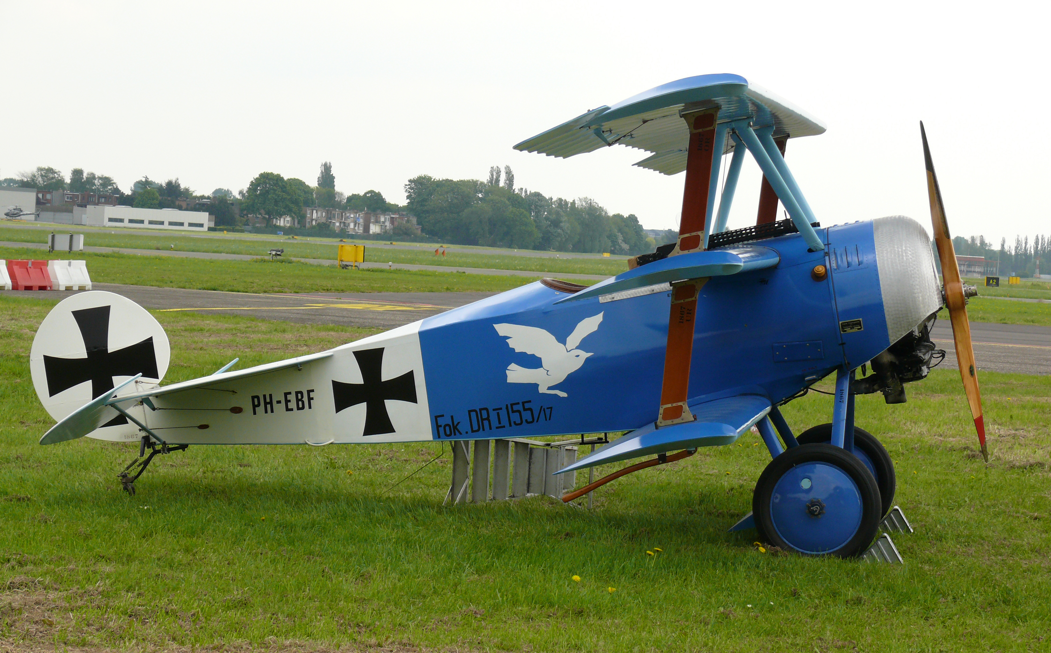 The Fokker Dr.I Dreidecker (triplane) was a World War I fighter aircraft built by Fokker-Flugzeugwerke. The Dr.I saw widespread service in the spring of 1918. It became renowned as the aircraft in which Manfred von Richthofen gained his last 20 victories. Since 2004, this aircraft is on loan to the Stampe & Vertongen Museum (Deurne-Antwerp) from the Early Birds Foundation at Lelystad. It is a replica that was built in the USA using original plans. It is fitted with a 165hp Warner engine.